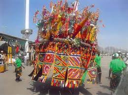 Ijele Umueri displaying